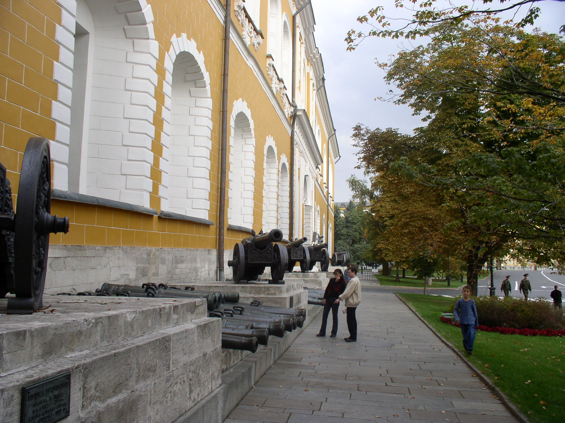 Arsenal. Moscow, Russia.